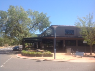 Duxton's bar and restaurant, O'Connor, Australian Capital Territory.